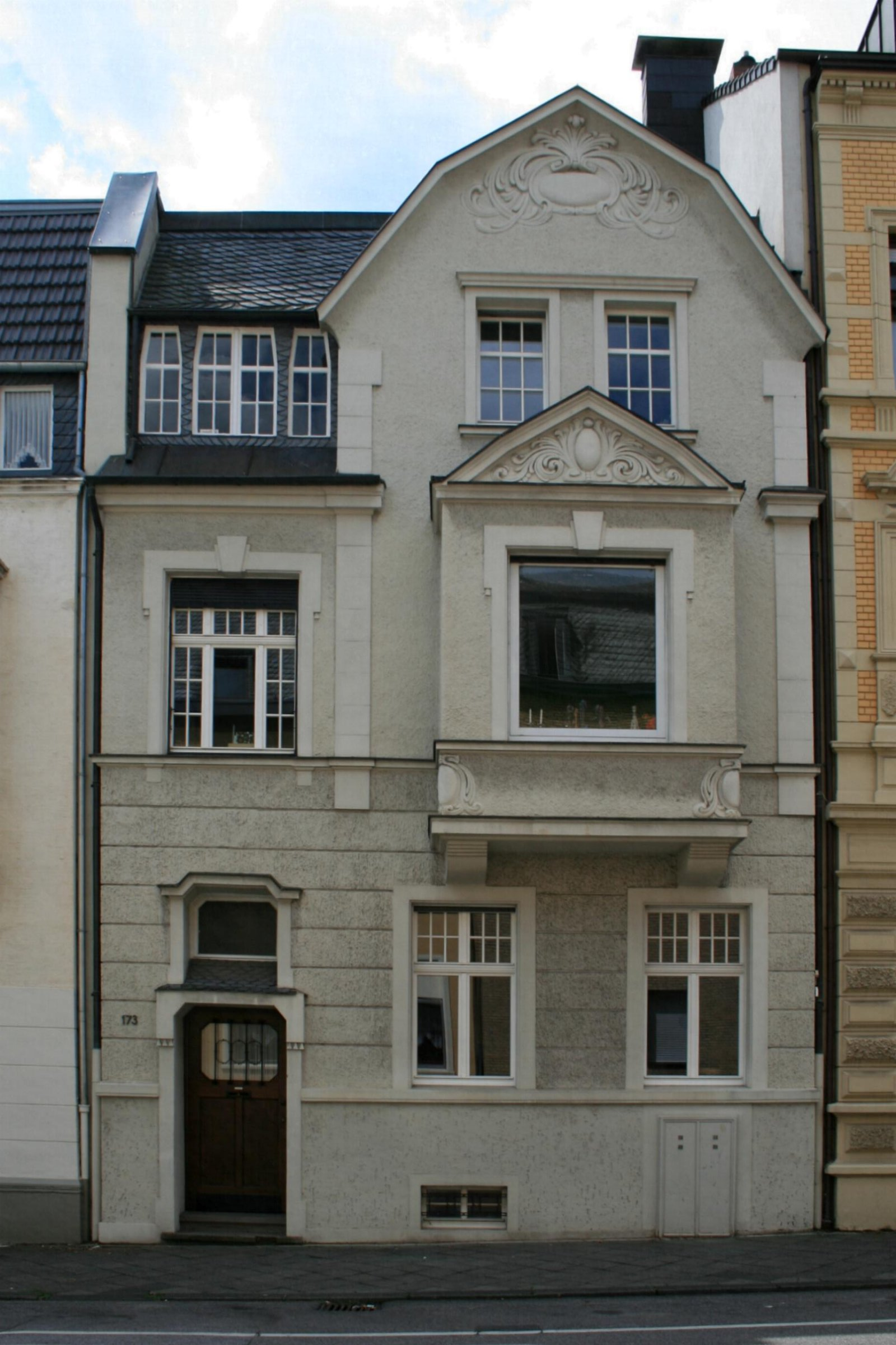 Cultural heritage monument No. L 041 in Mönchengladbach